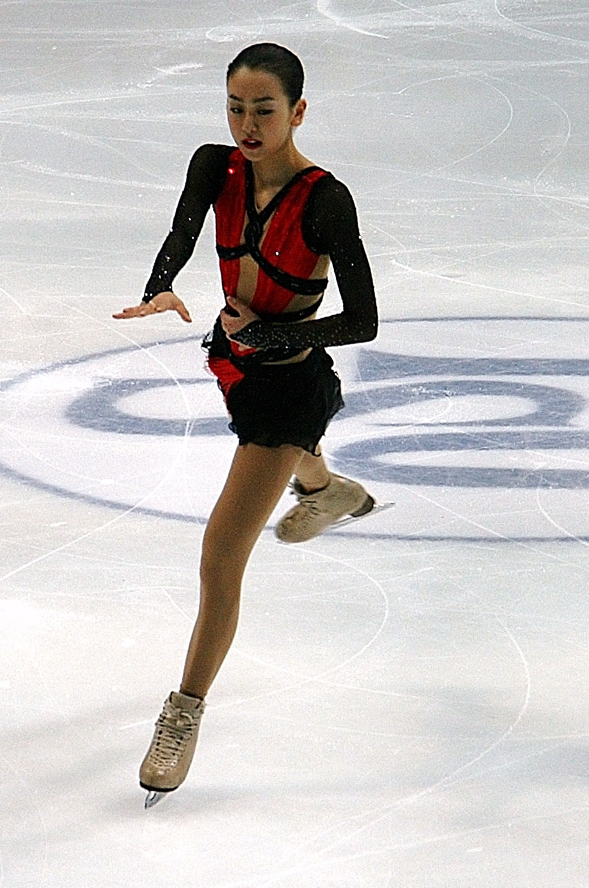 Mao Asada at the 2011 World Figure Skating Championships